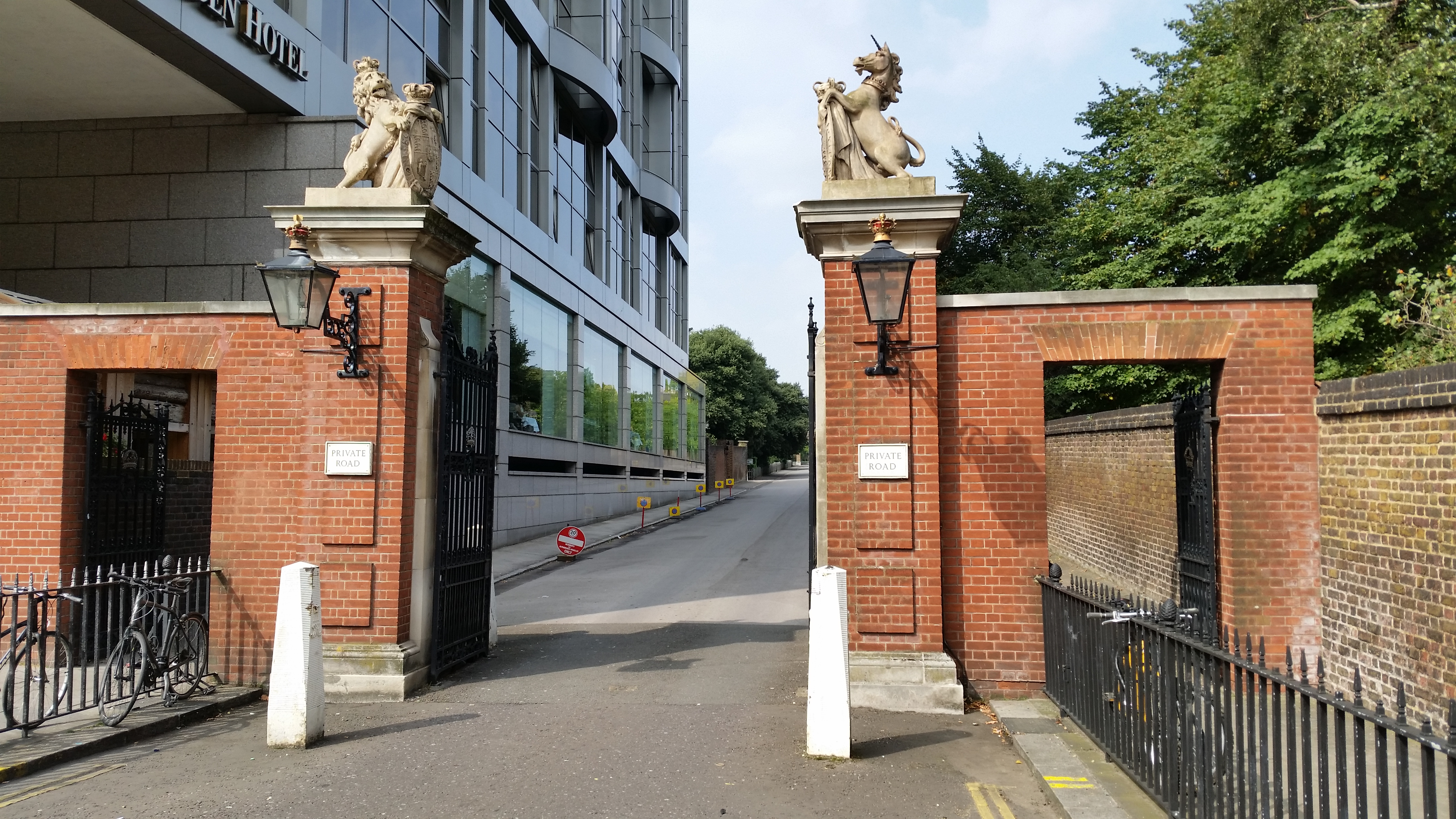 South entrance gates to Kensington Palace